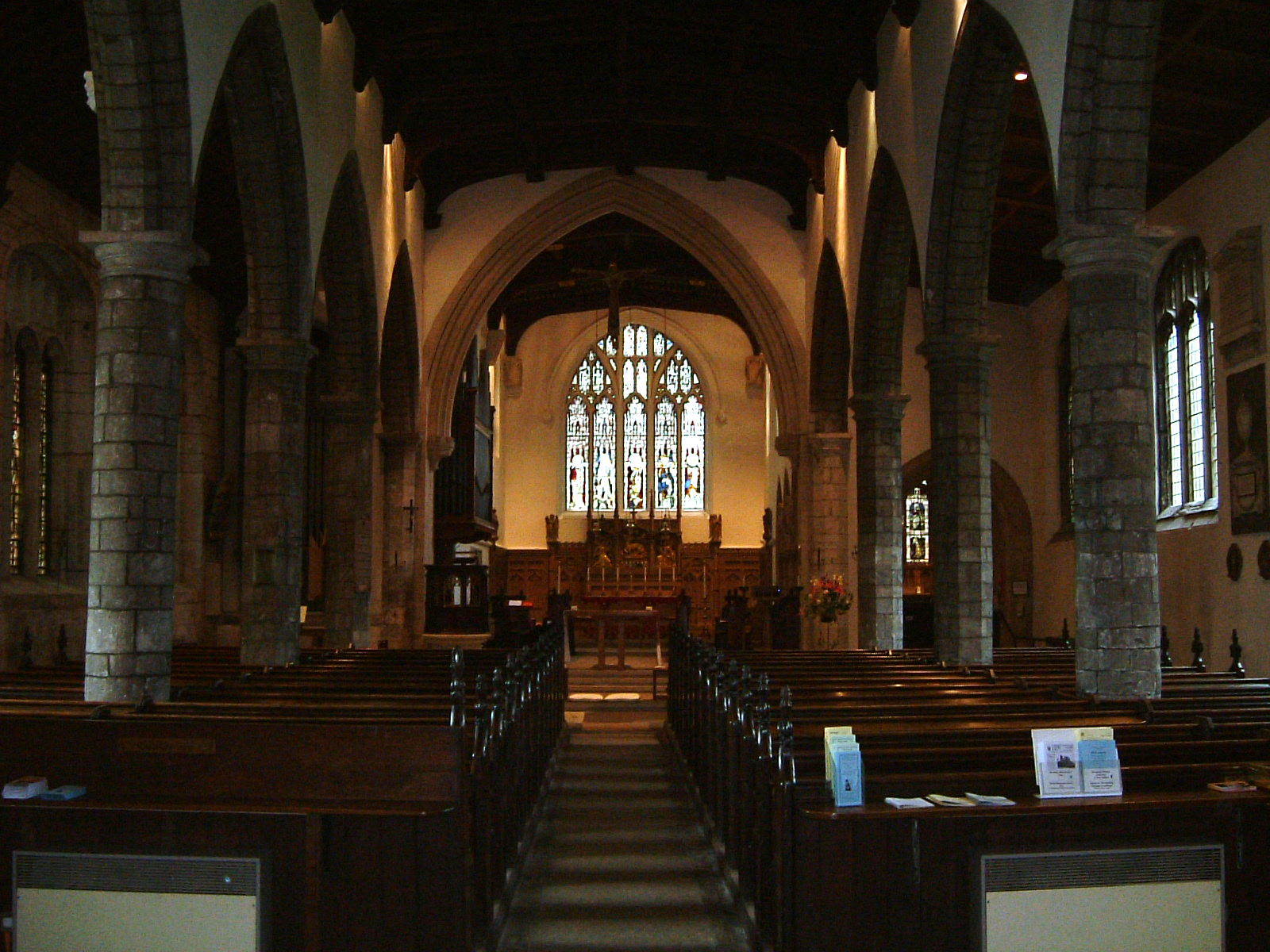 Taken by James@hopgrove, March 2005.